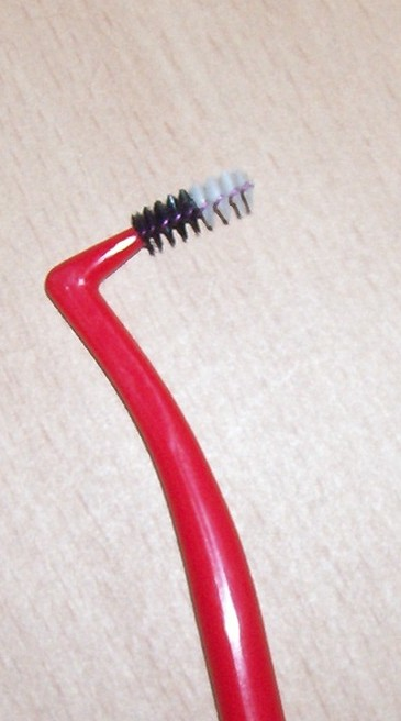 An interdental toothbrush.